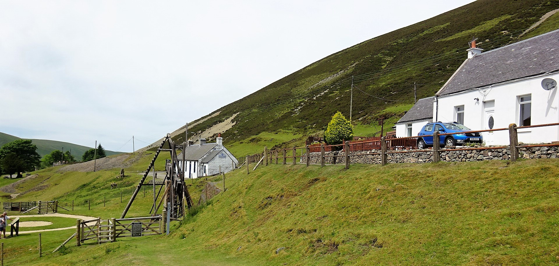 Wanlockhead Beam Engine and Straight Steps Cottages, Wanlockhead, Dumfries & Galloway. The mine dates from 1675 and closed circa 1900.